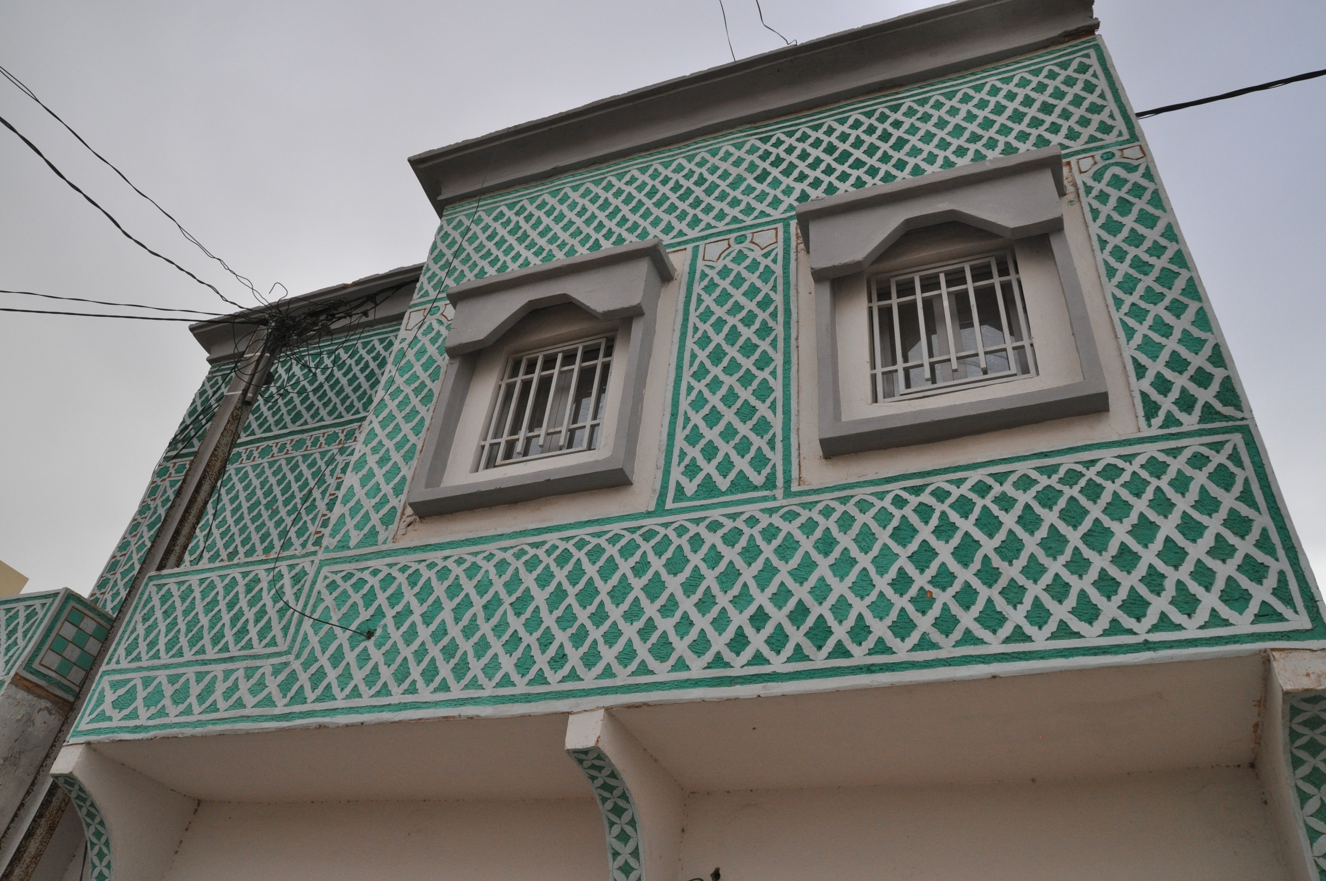 House in Nouakchott (Mauritania)